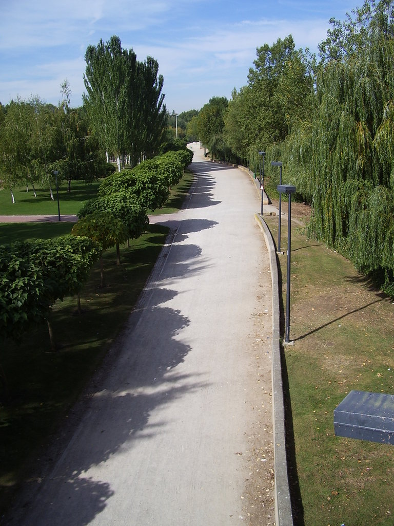 Ebro Park in Logroño, near the river by the same name